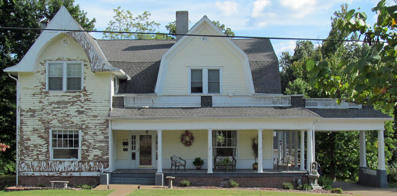 The Robert Thomas House at 516 Broad Street in Central City, Kentucky. Constructed in 1899 and once the home of Kentucky Congressman Robert Y. Thomas, Jr., it is listed on the National Register of Historic Places